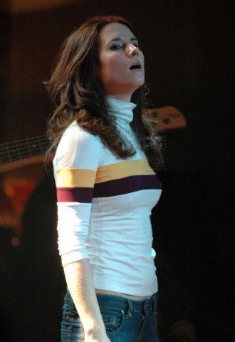 Kate Hapocka